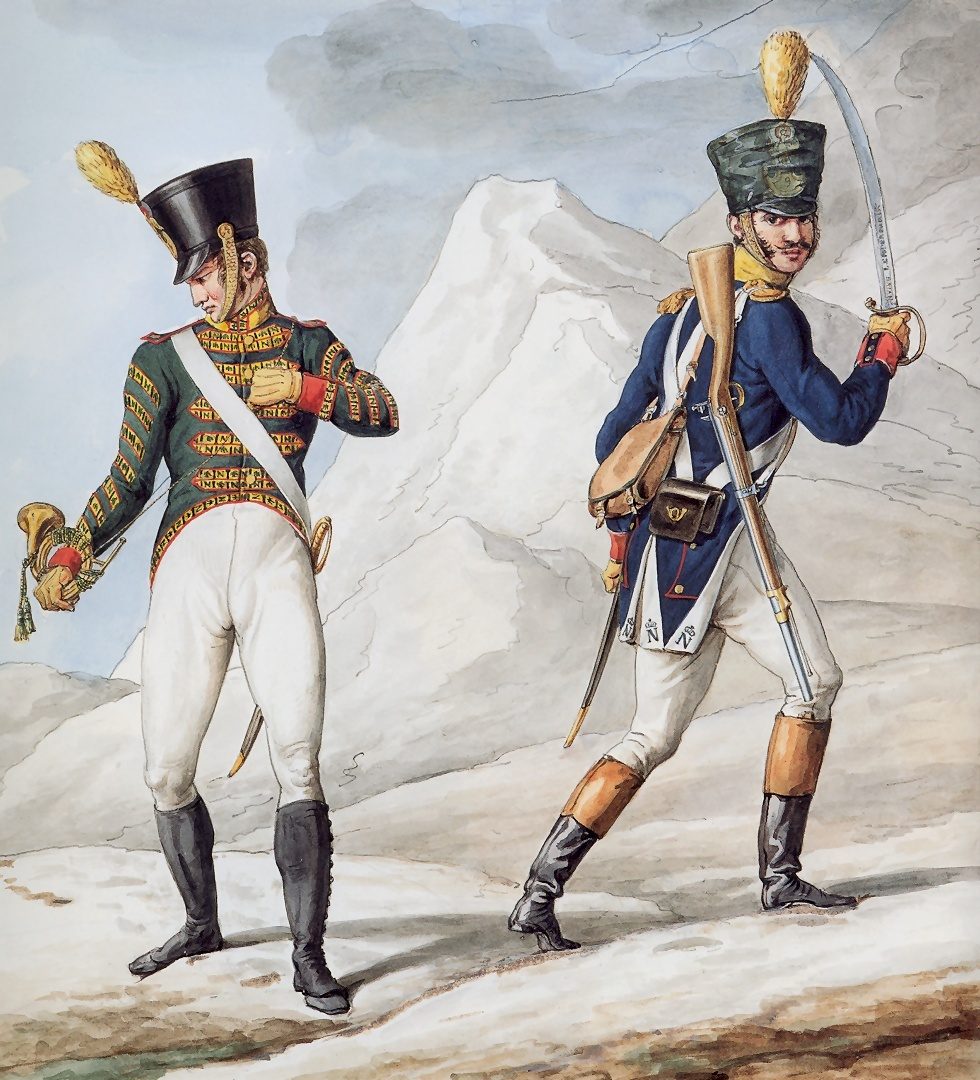 Part of a series chronicling the uniforms of Napoleon's Grande Armée.